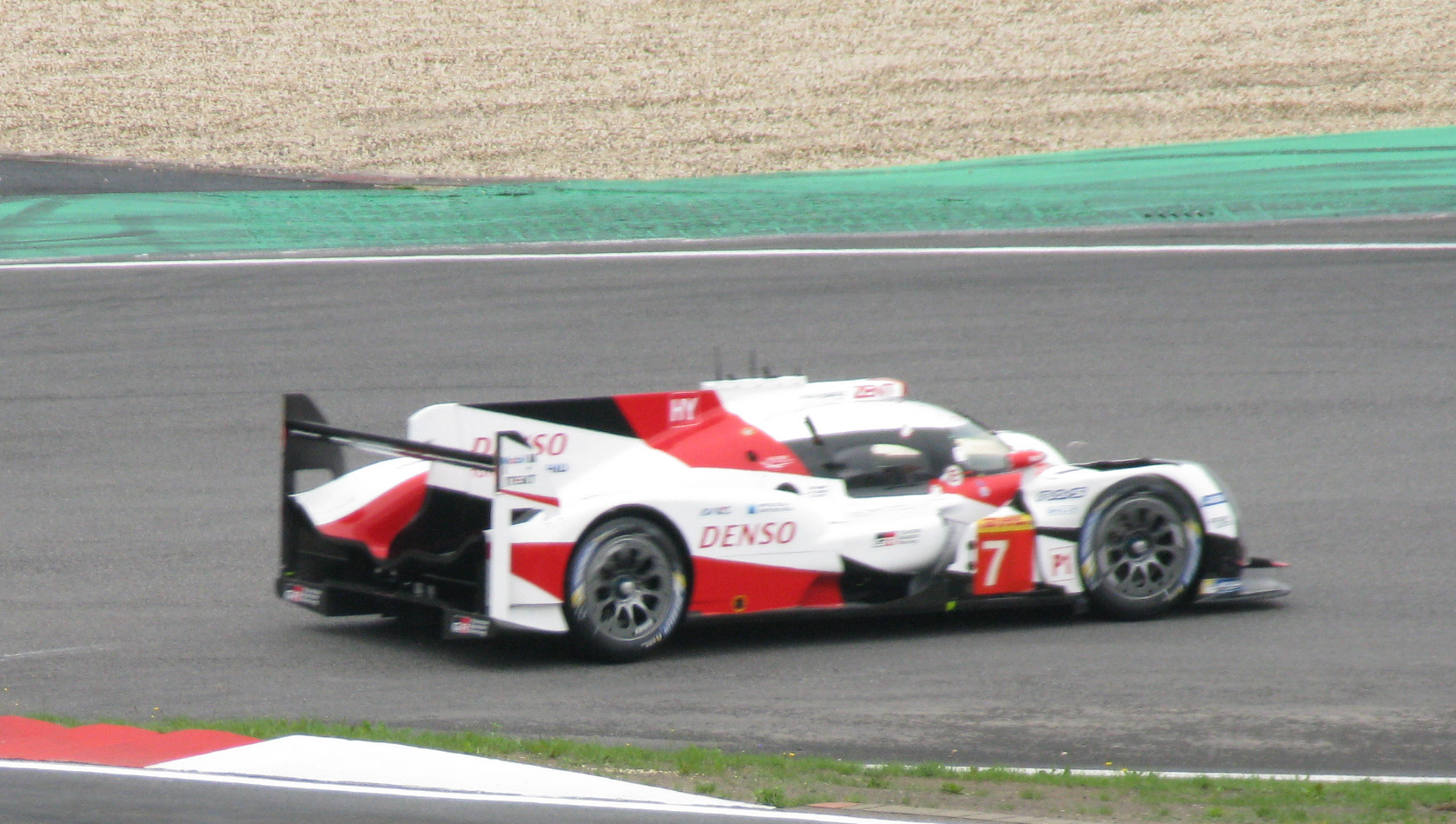 7 Toyota TS050 of Toyota Gazoo Racing.